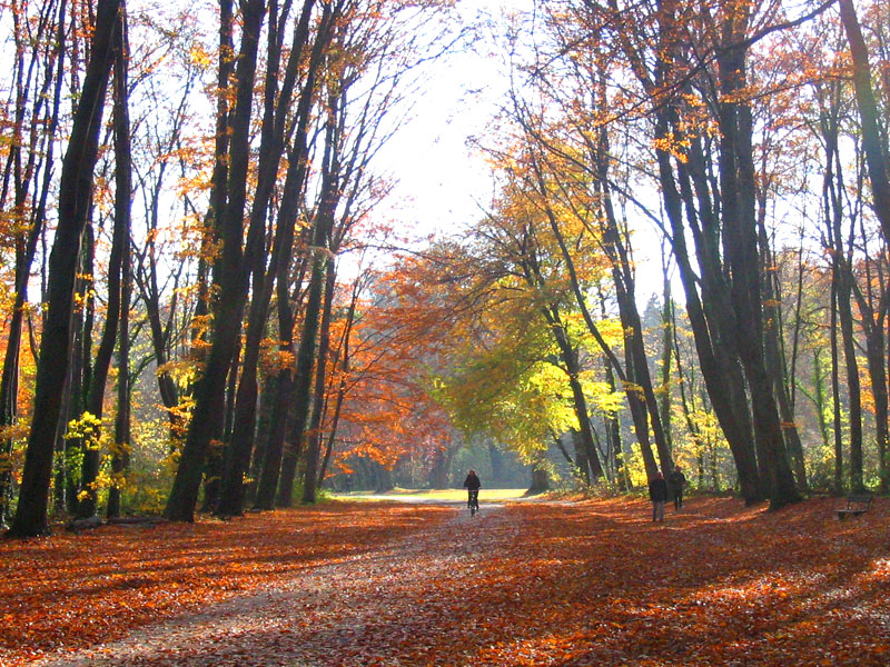 Koeln Lindenthal Park. taken by Pixie